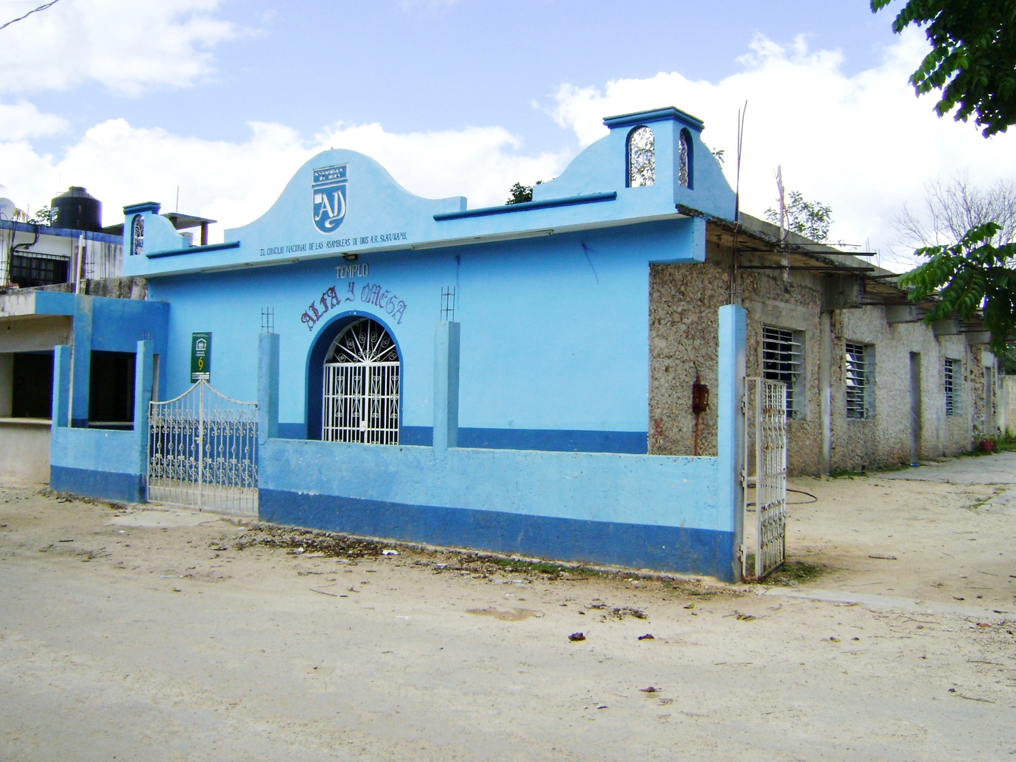 Alfa y Omega Temple of The National Council of Assemblies of God, R.A, Leona Vicario, Quintana Roo, México